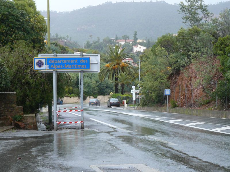 Start of D6098 road in Alpes-Maritimes, France